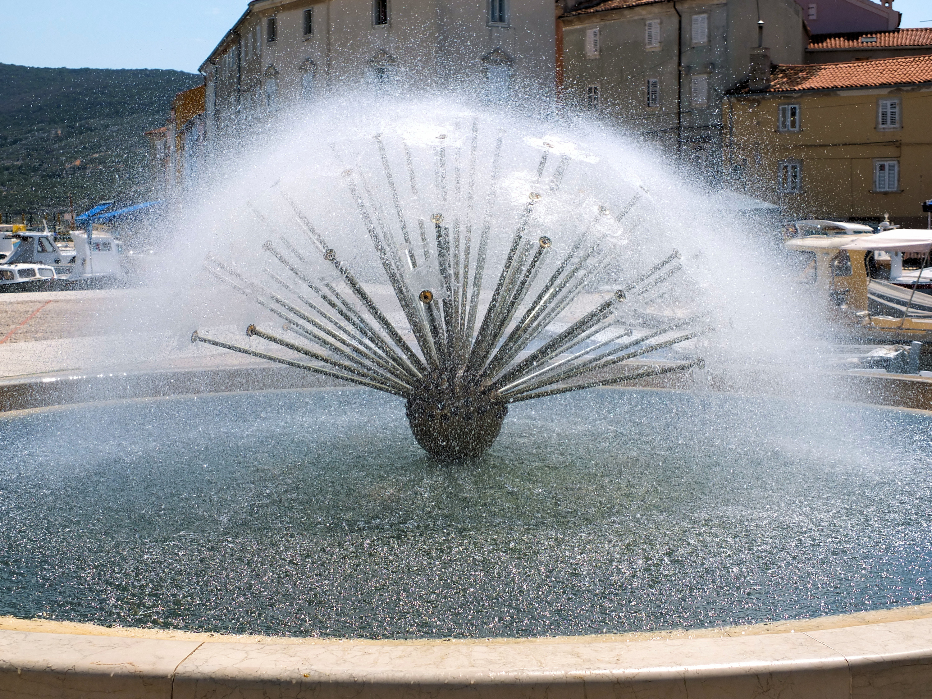 Fountain in Cres, Croatia.